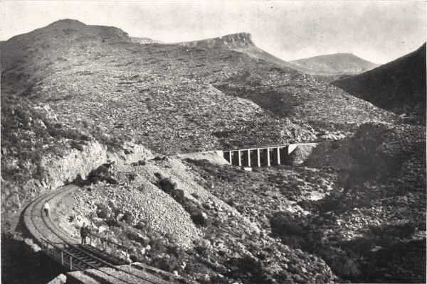 A view of the Hex River Pass. Railway pass constructed by Molteno Ministry 1876. Cape Colony.